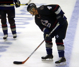 Former Vancouver Canucks defenceman Nolan Baumgartner